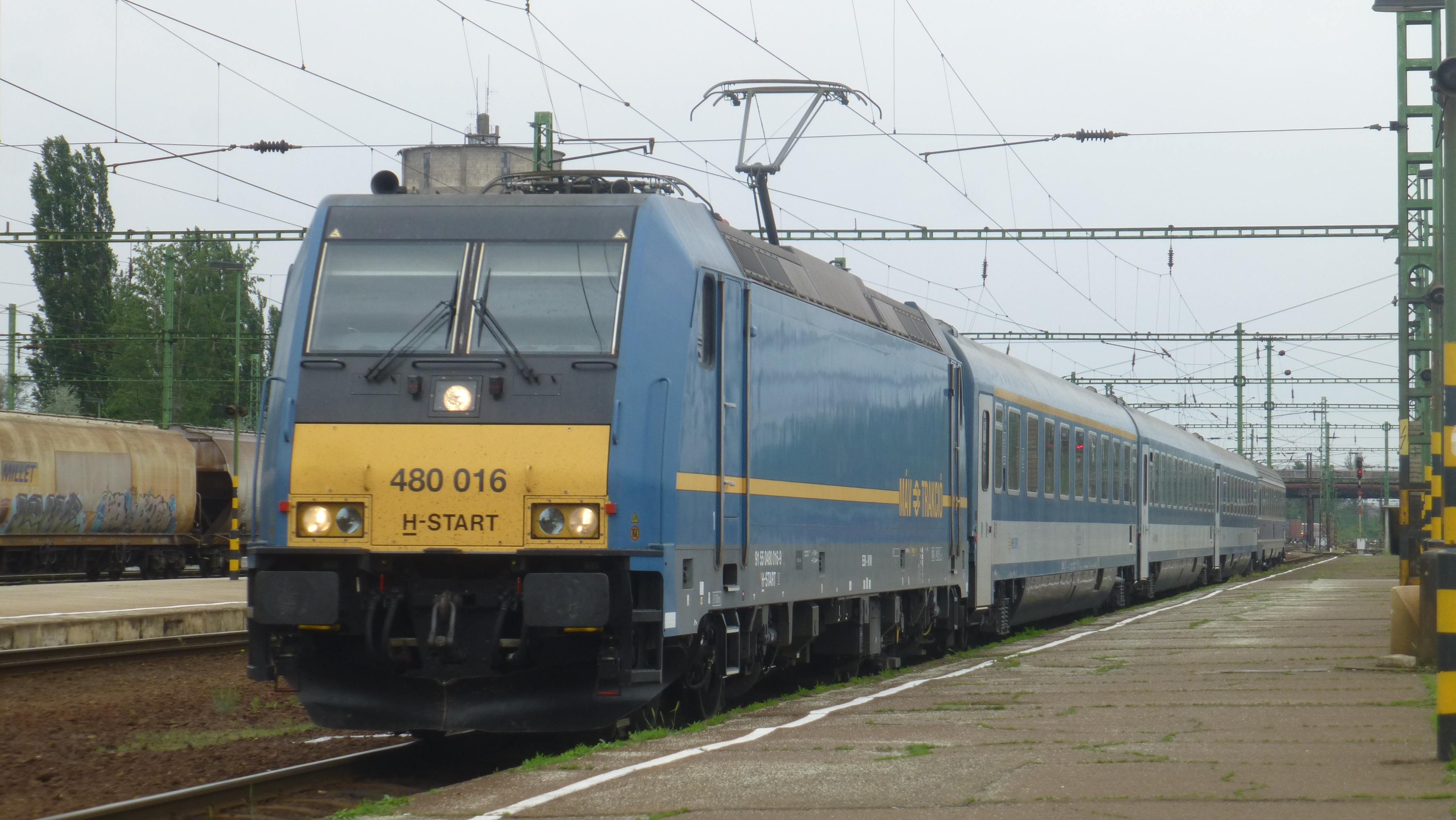 MÁV-Start train no. 143 (Transilvania EuroCity) in Szolnok, Hungary.